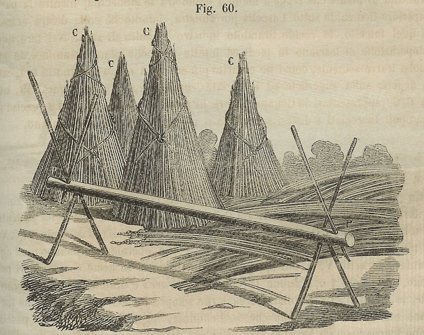 Cut stems of hemp Capannella open to dry before dipping in maceratoio in an illustration of 1866